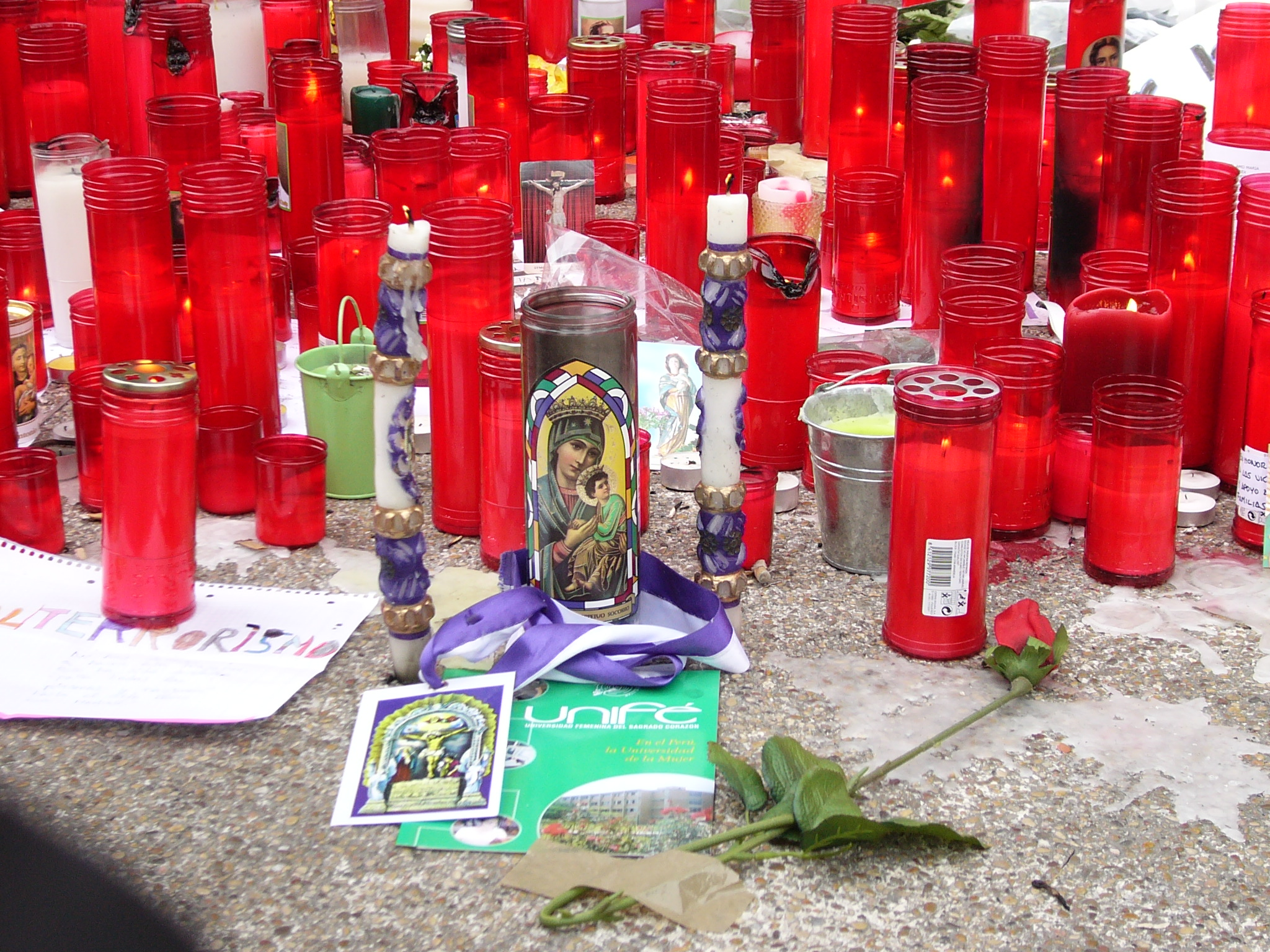 Description: Prayers after the 11 March 2004 attacks City: Madrid Country : Spain Photographer: © Manuel González Olaechea y Franco Shot date : March 17th , 2004